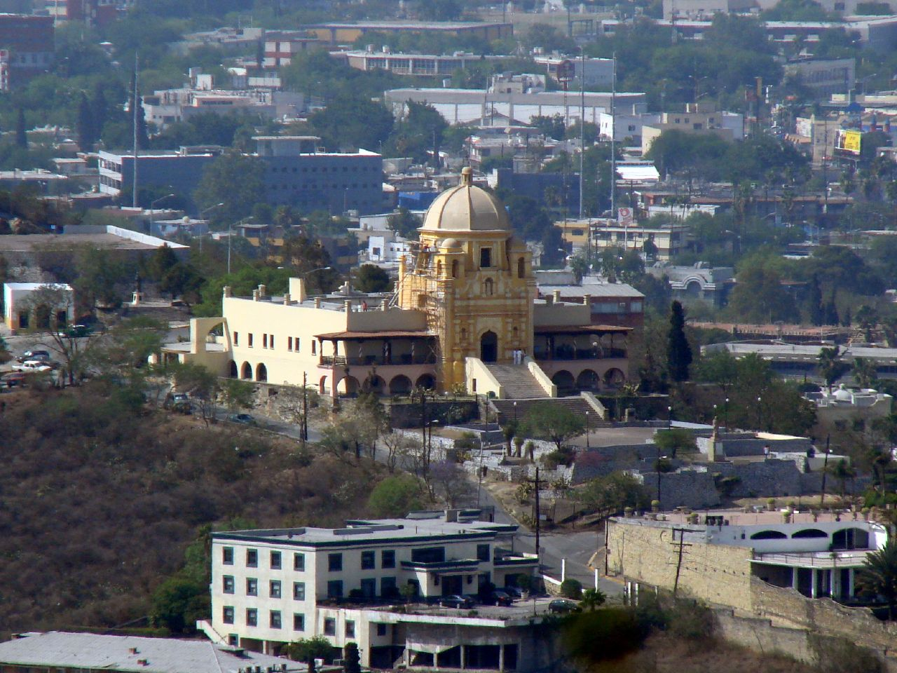 Bishop's Palace Museum and Cerro del Obispado — in Monterrey, México. 18th century Spanish colonial building, with Baroque style carved stone central tower.